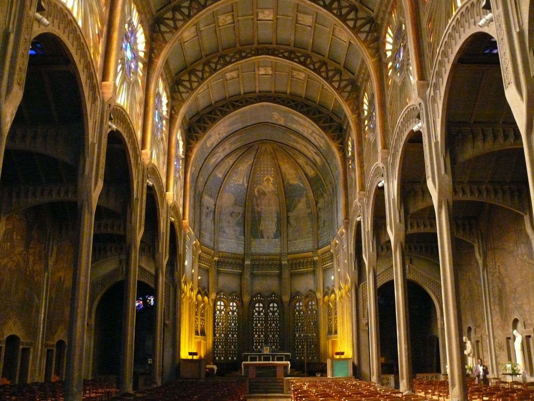 Saint-Christophe-de-Javel's church in Paris (France)